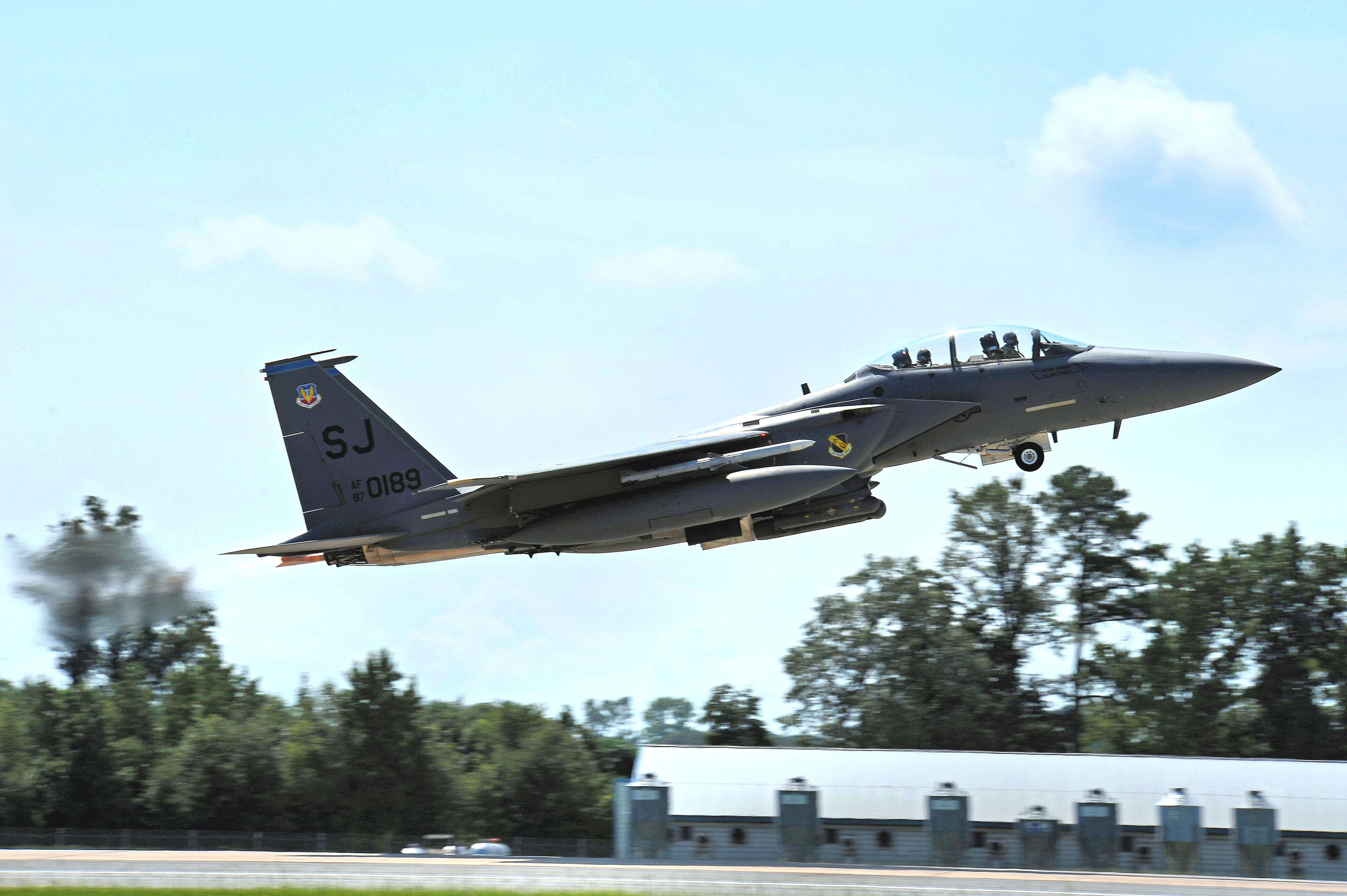 Maj. Lewis “Nordo” Collins, 334th Fighter Squadron pilot, takes off in an F-15E Strike Eagle with John Dibbs, a free-lance air-to-air photographer, in the back seat. Mr. Dibbs photographed the F-15Es in action for layouts in his large coffee table book, “Combat Edge,” and Air Forces Monthly magazine. (U.S. Air Force photo by Master Sgt. Brandt Smith)